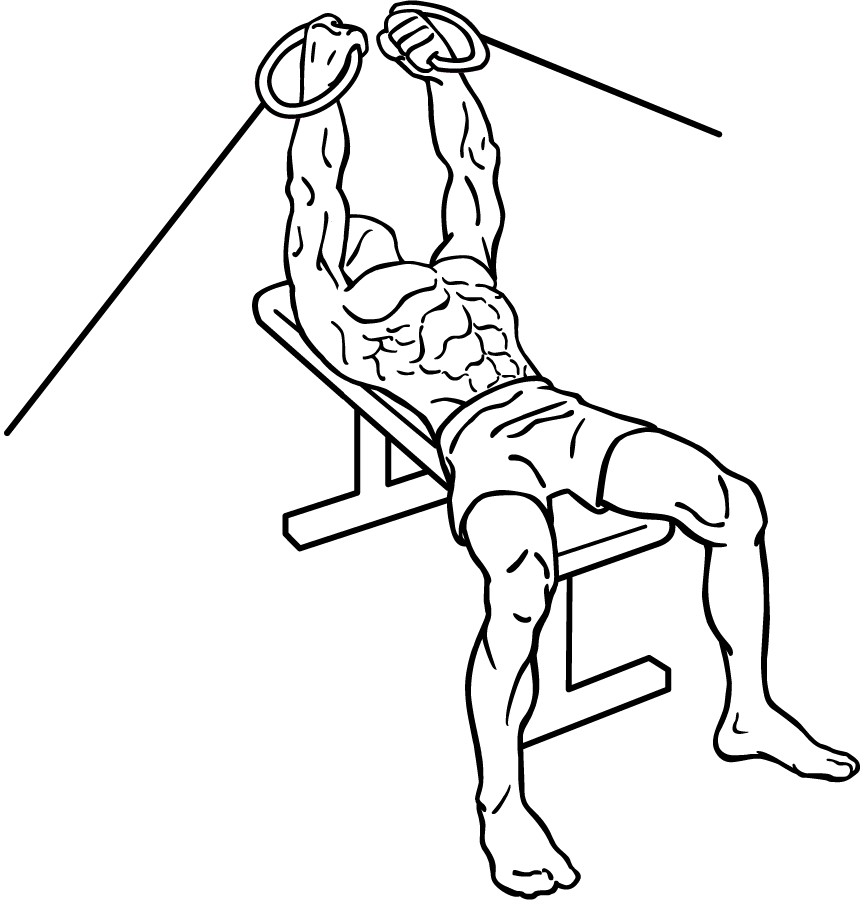 an exercise of chest